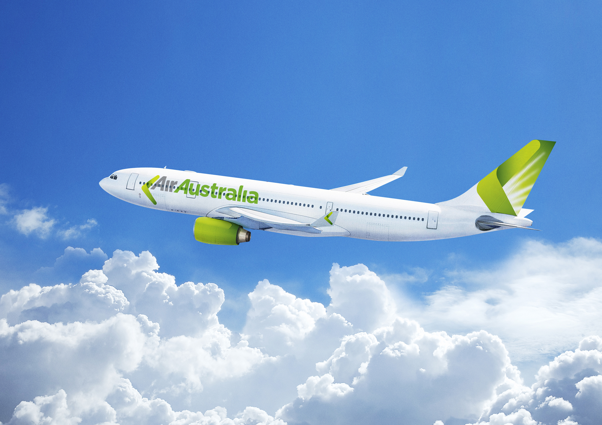 Air Australia Airbus A330-200.